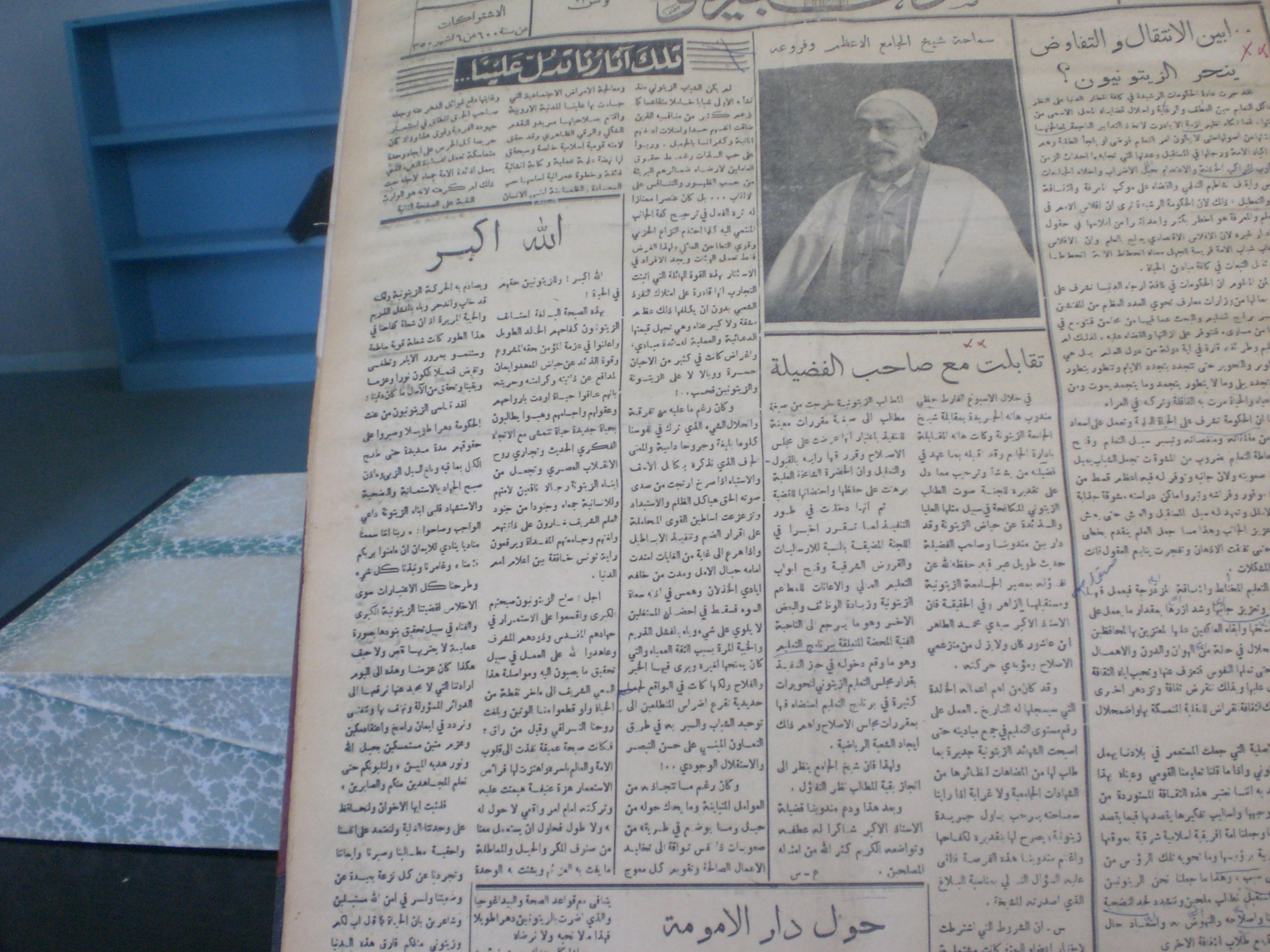 Cheikh Tahar Ben Achour on a newspaper, 1950